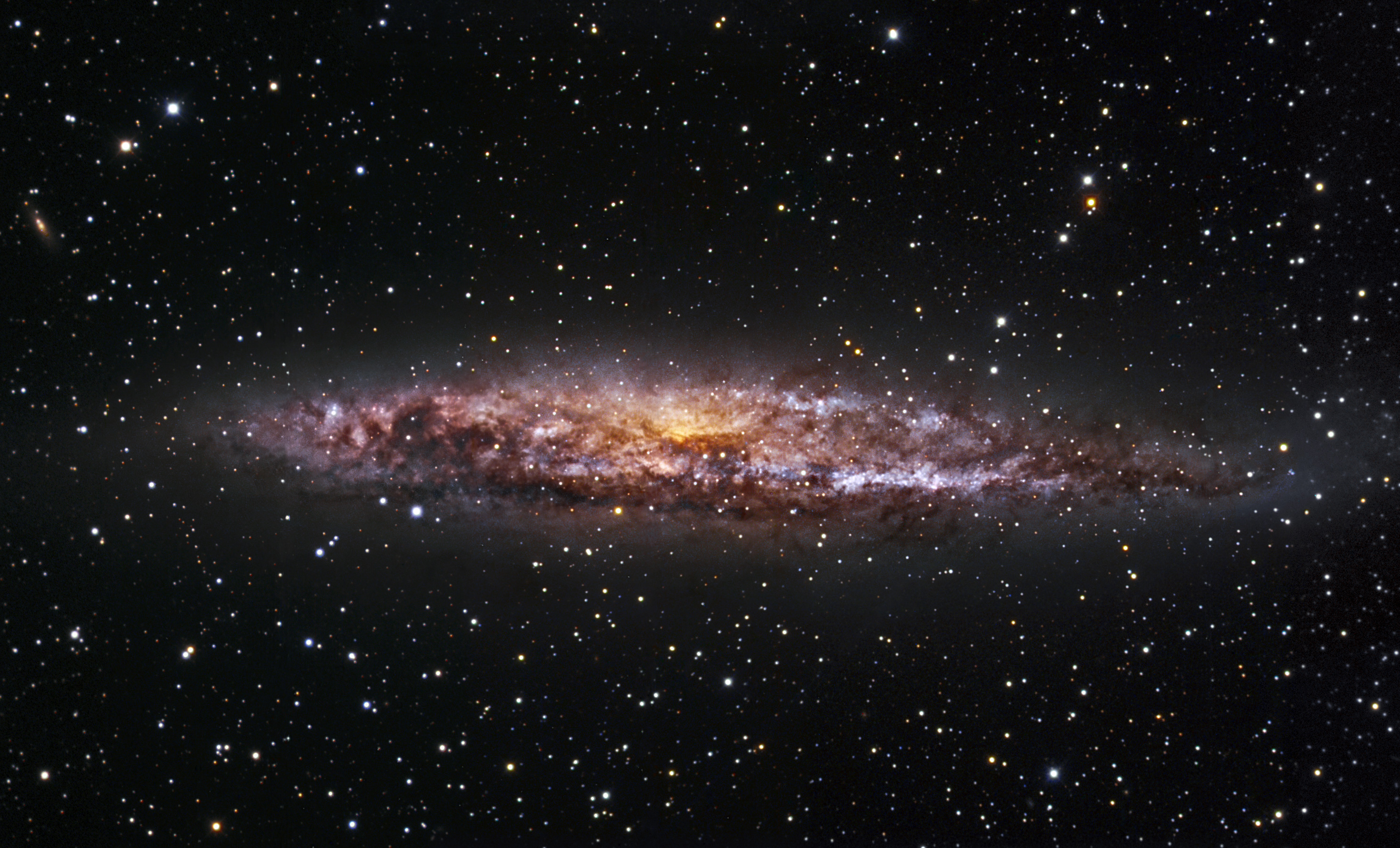 Portrayed in this image is the spiral galaxy NGC 4945, a close neighbour of the Milky Way. Belonging to the Centaurus A group of galaxies, it is located at a distance of almost 13 million light-years. Showing a remarkable resemblance to our own galaxy, NGC 4945 also hides a supermassive black hole behind the thick, ring-shaped structure of dust visible in the picture. But, unlike the black hole at the centre of our Milky Way, the million-solar-mass black hole inside NGC 4945 is an Active Galactic Nucleus that is frantically consuming any surrounding matter, and so releasing tremendous amounts of energy. This image combines observations performed through three different filters (B, V, R) with the 1.5-metre Danish telescope at the ESO La Silla Observatory in Chile.